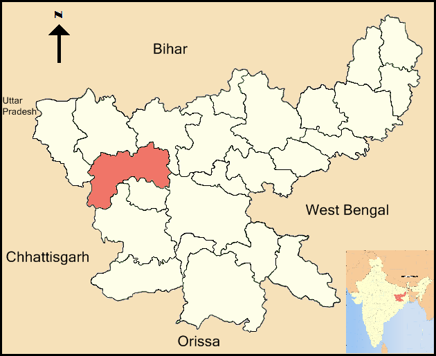 A locator map of Latehar district of Jharkhand state in India.